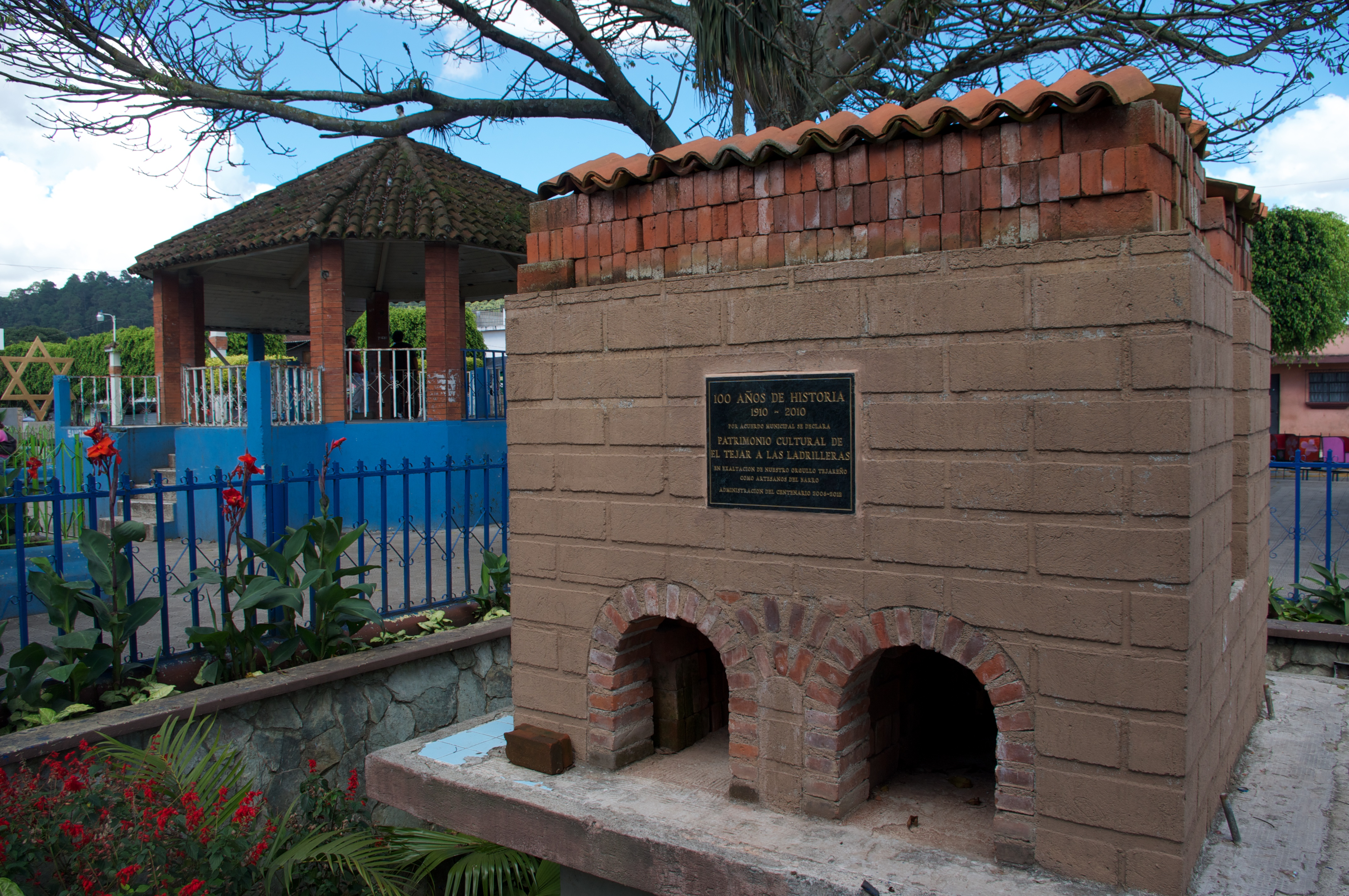 Brick Kiln Erected Tribute to a Hundred Years of Tradition in the village of El Tejar - Department of Chimaltenango - Guatemala.